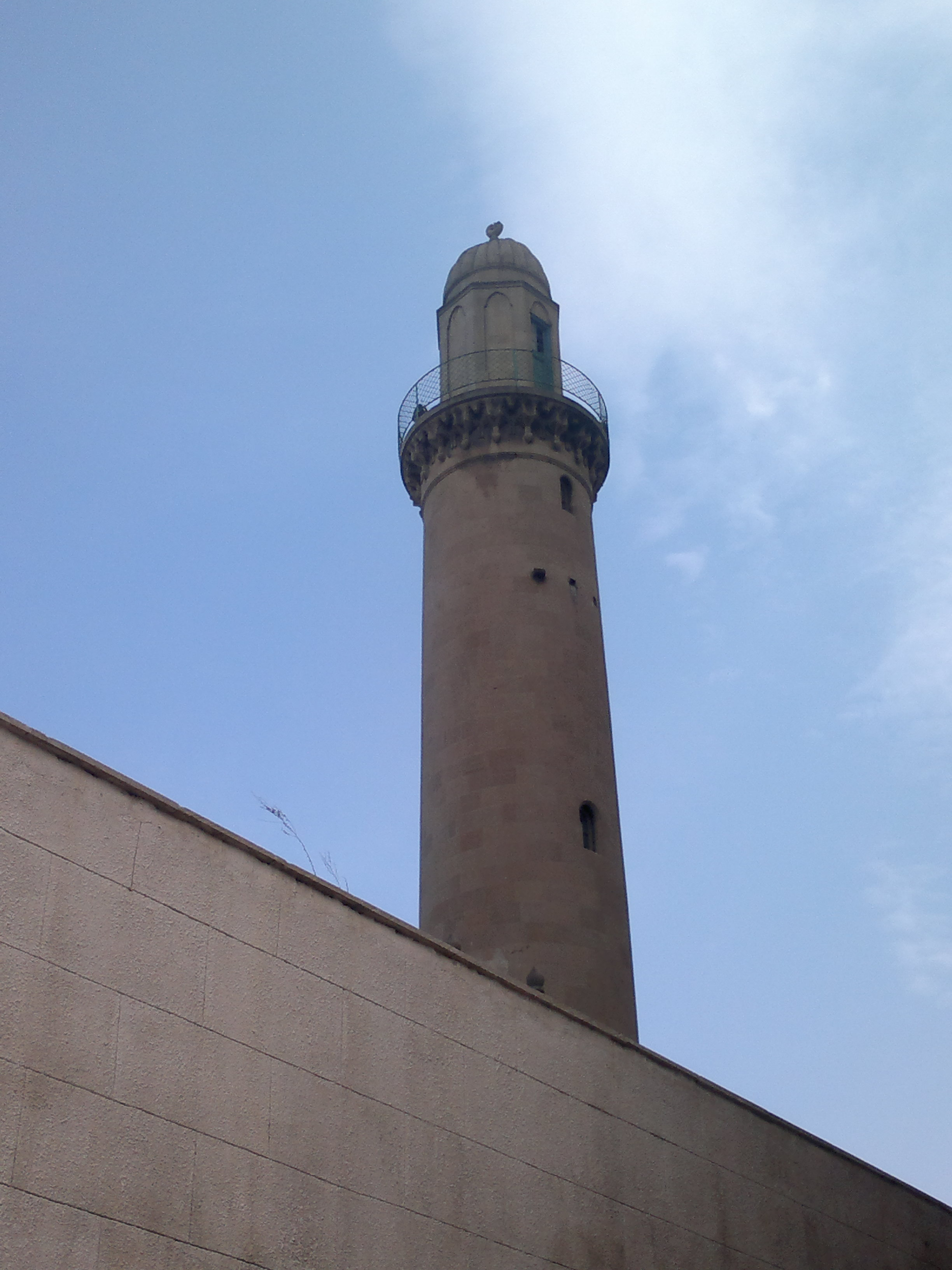 Minaret of Imam Hussein Mosque